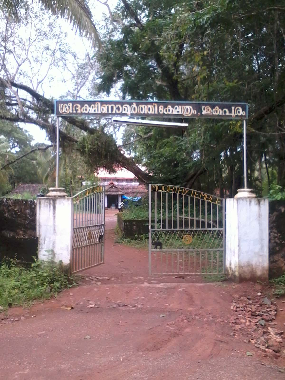 Dakshinamoorthy temple - Sukapuram - Edappal